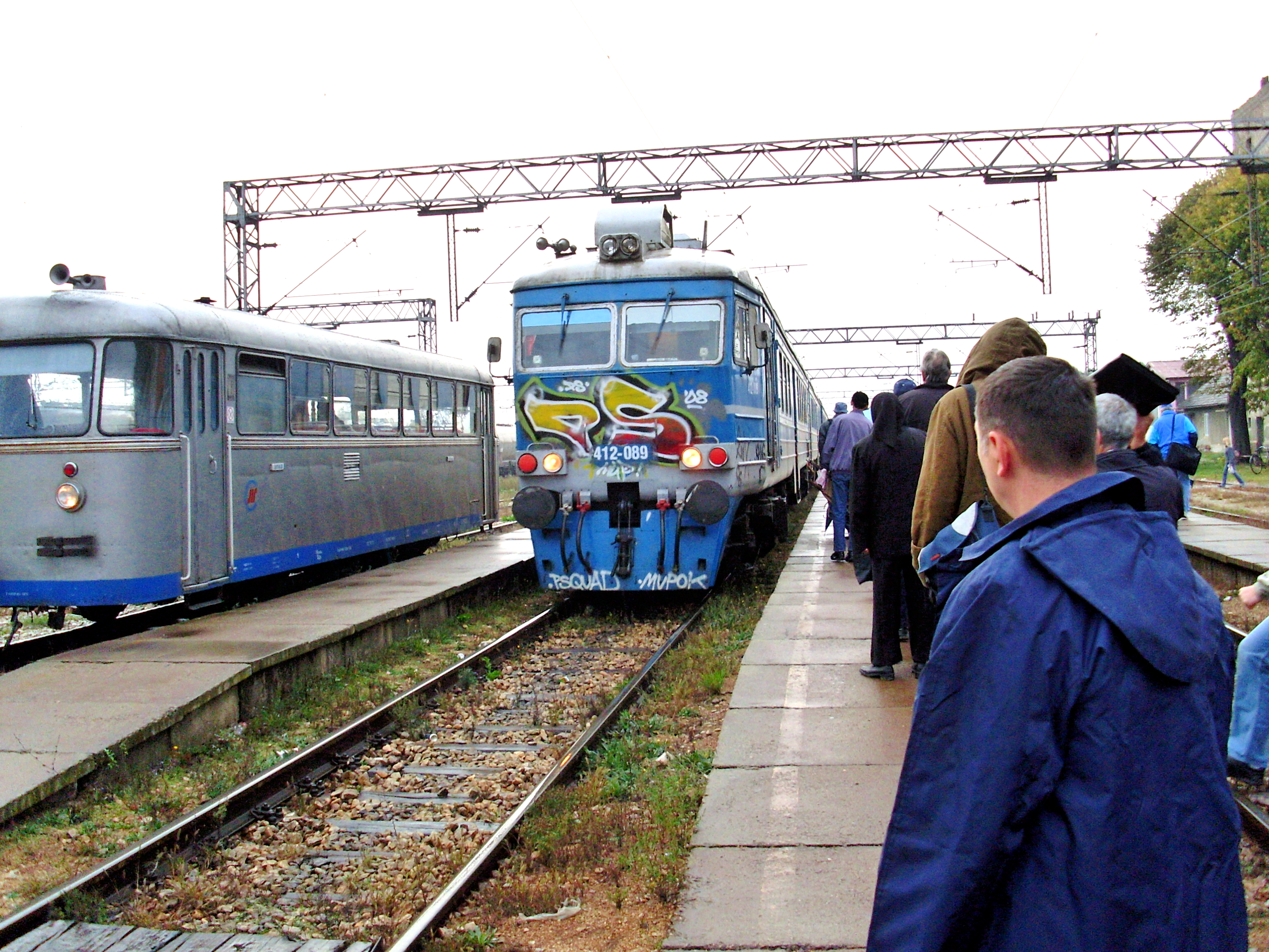 "Sinobus" (german:Schienenbus) and Beovoz commuter train at Ruma train station, Srbia